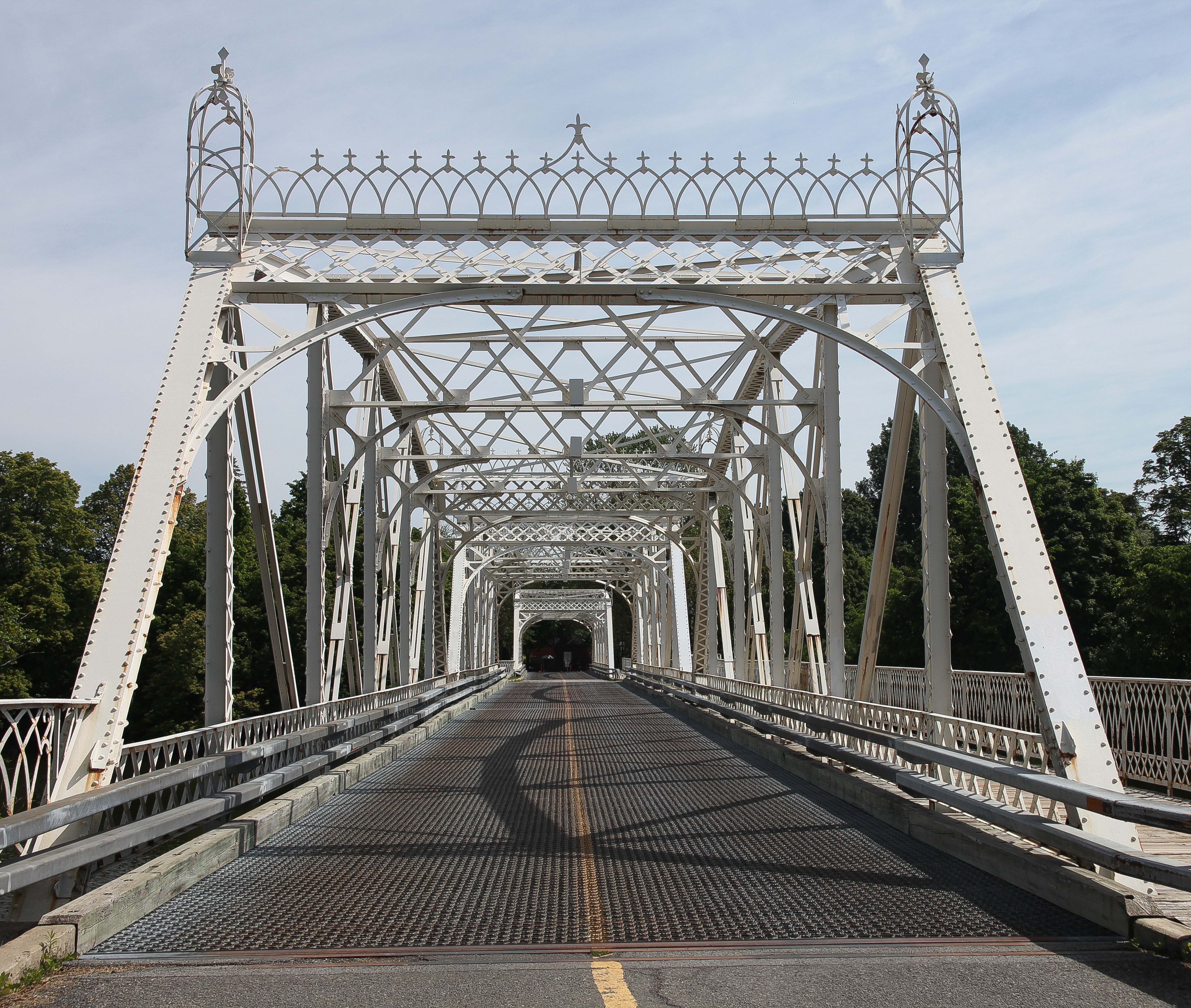 Looking northeastwards across the Minto Bridge Centre, the middle of three bridges that compise the Minto Bridge, a historic 1900 Parker through-truss bridge between Maple Island and Green Island, across the Rideau River, in Ottawa, Ontario. The northeasternmost bridge, Minto Bridge East, is visible in the distance.